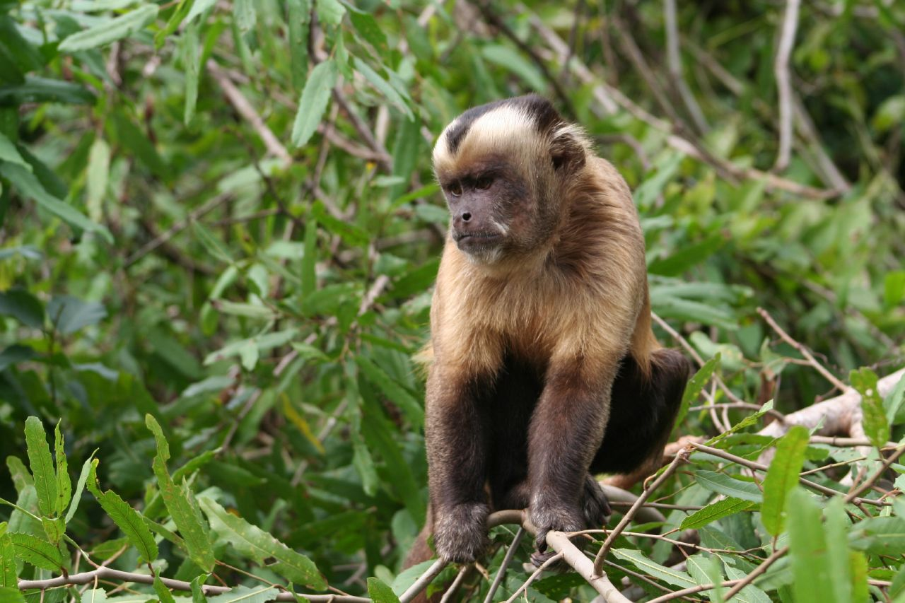 Large-headed capuchin (Sapajus macrocephalus) in Yacuma river, Bolivia.